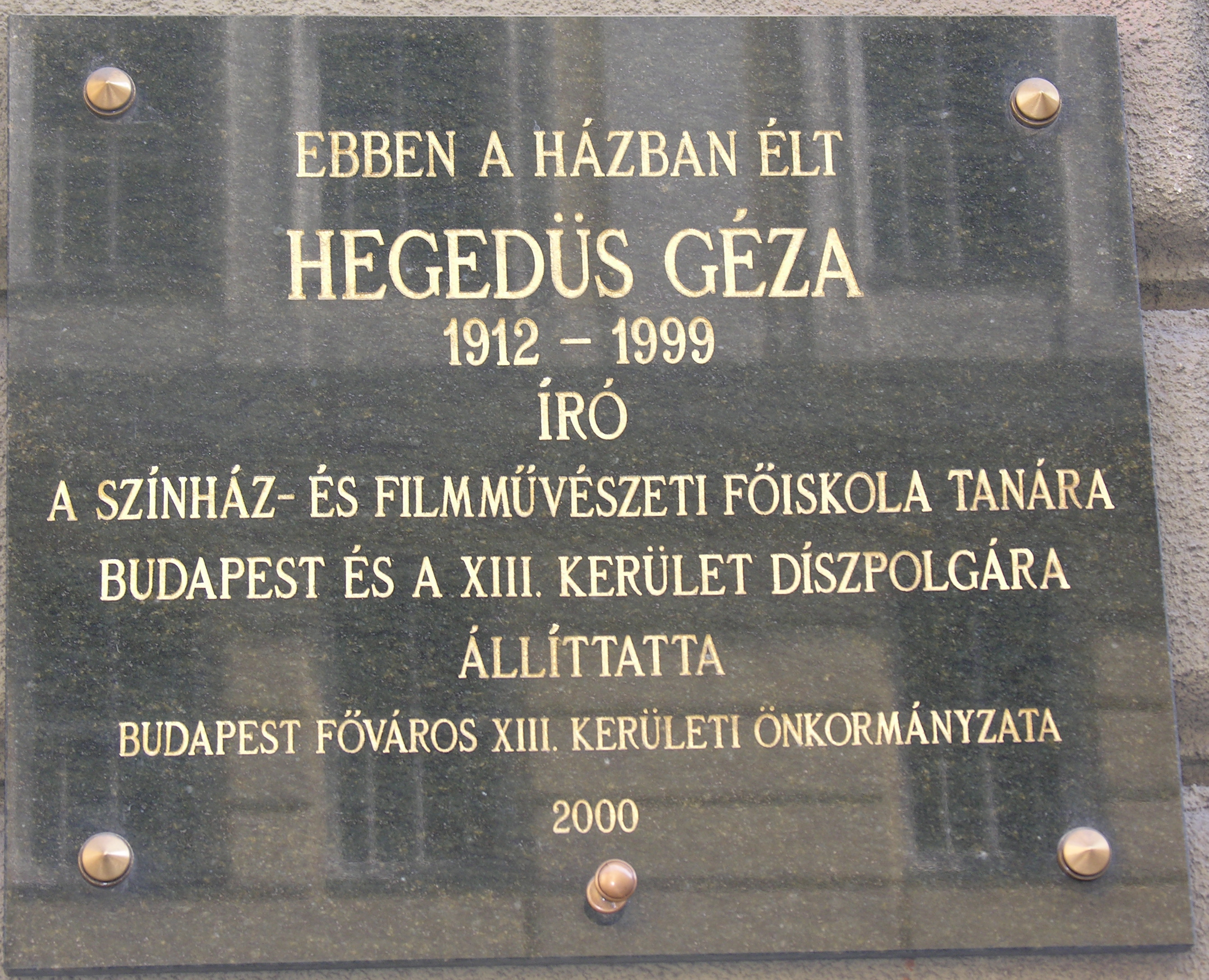 Commemorative plaque of Géza Hegedüs in Budapest District XIII, Ditrói Mór Street No 3